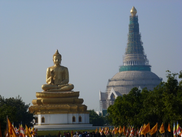 Buddha's Statue in Katra, Shrawasti, Balrampur